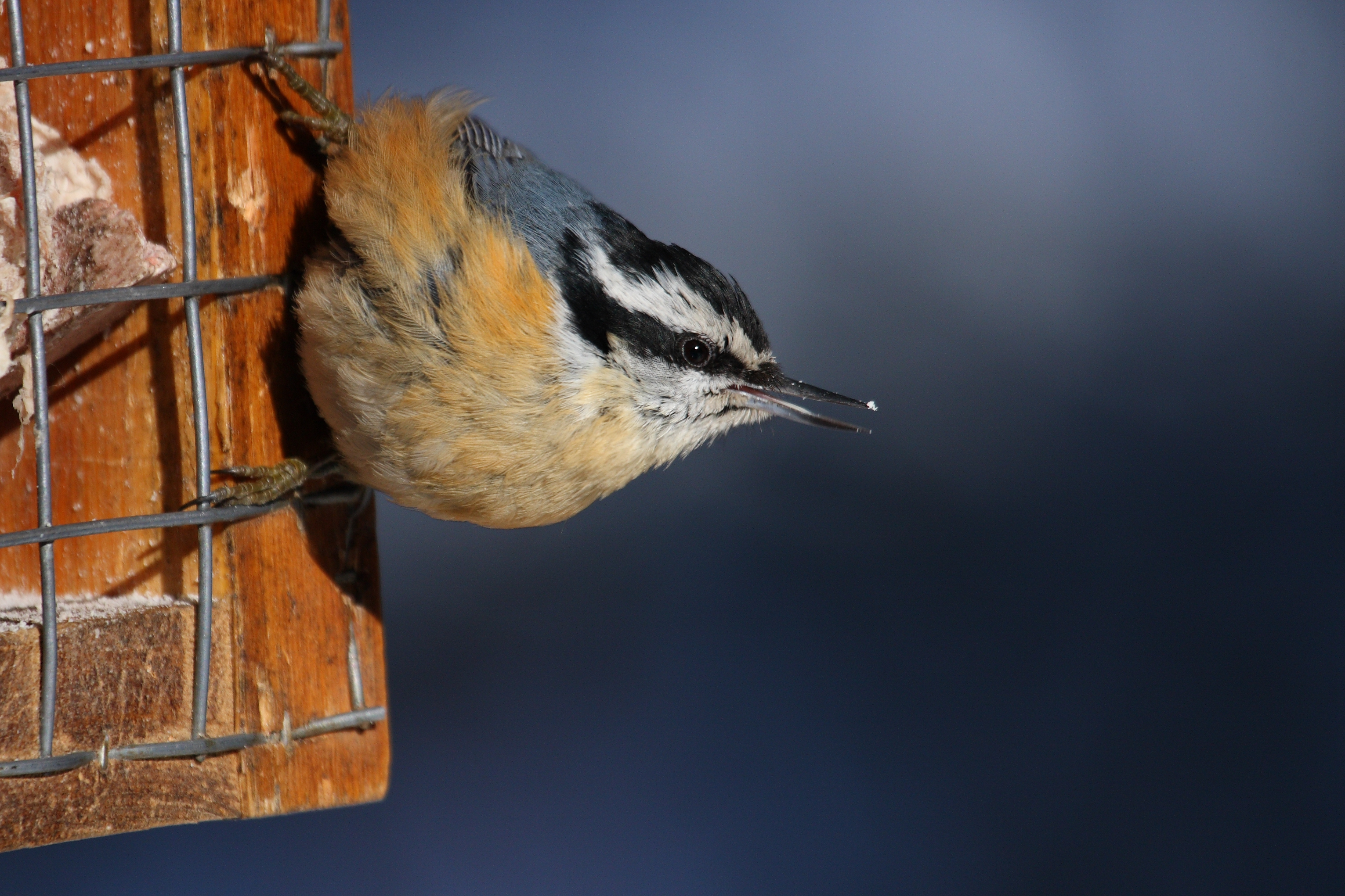 Red-breasted Nuthatch (Sitta canadensis), male feeding on suet, Cap Tourmente National Wildlife Area, Quebec, Canada